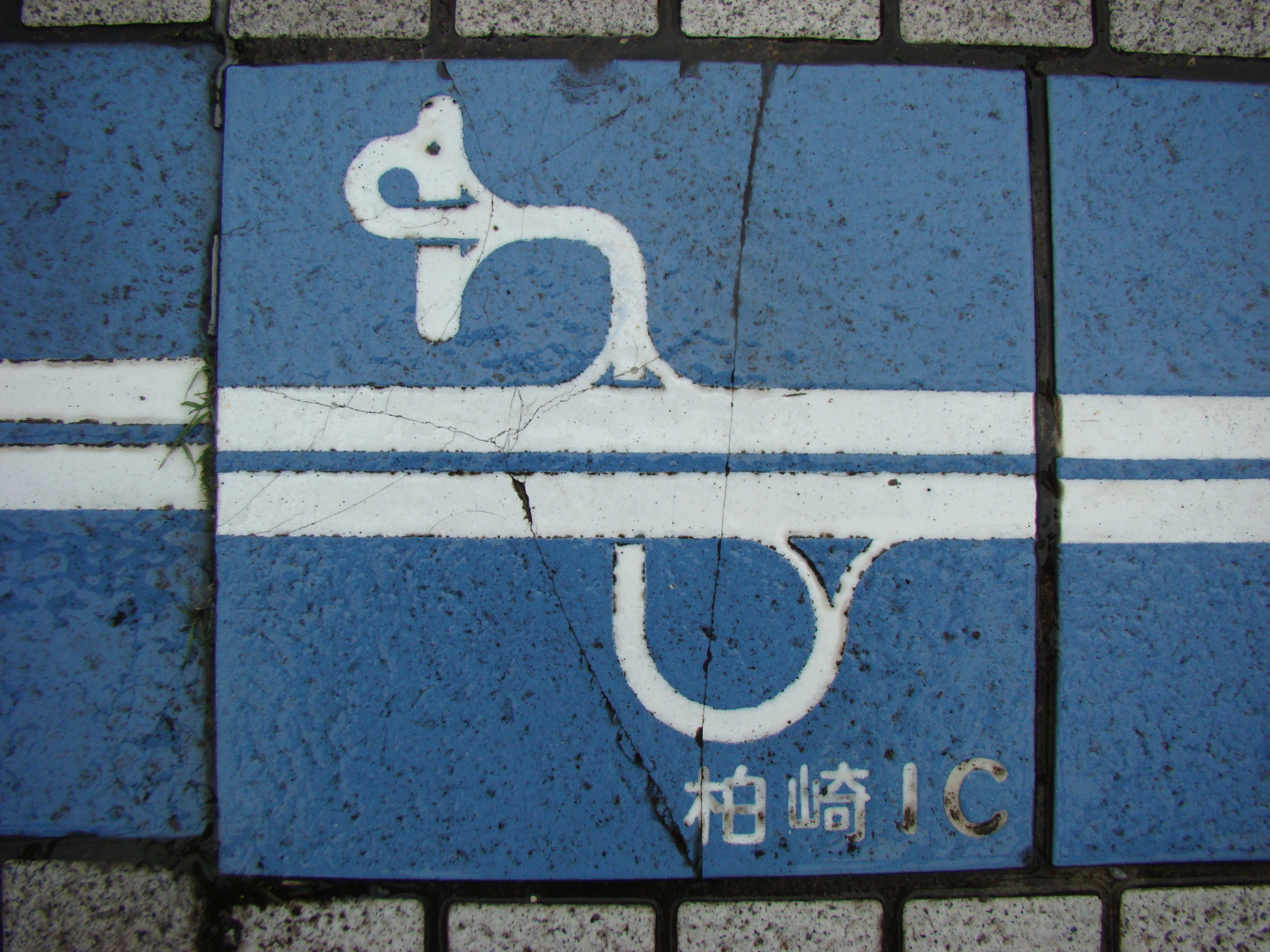 The tile which designed a shape of the Kashiwazaki Interchange（Hokuriku Expressway）（There is this tile in Hokuriku Expressway Nadachi-Tanihama Service Area.）. Place - Chayagahara,Joetsu City,Niigata Prefecture,Japan Date - August 9, 2009 Format - JPEG, 3264x2448pixel, 24bit colors. Photographer - NALA Wiki (talk)